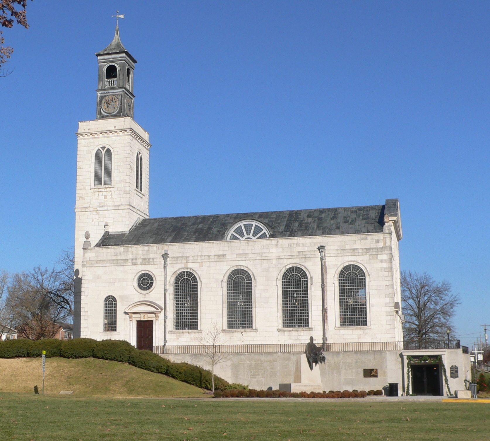 National Churchill Museum, located at northwest corner of 7th Street and Westminister Avenue, on the campus of Westminister College in Fulton, Missouri; seen from the south.